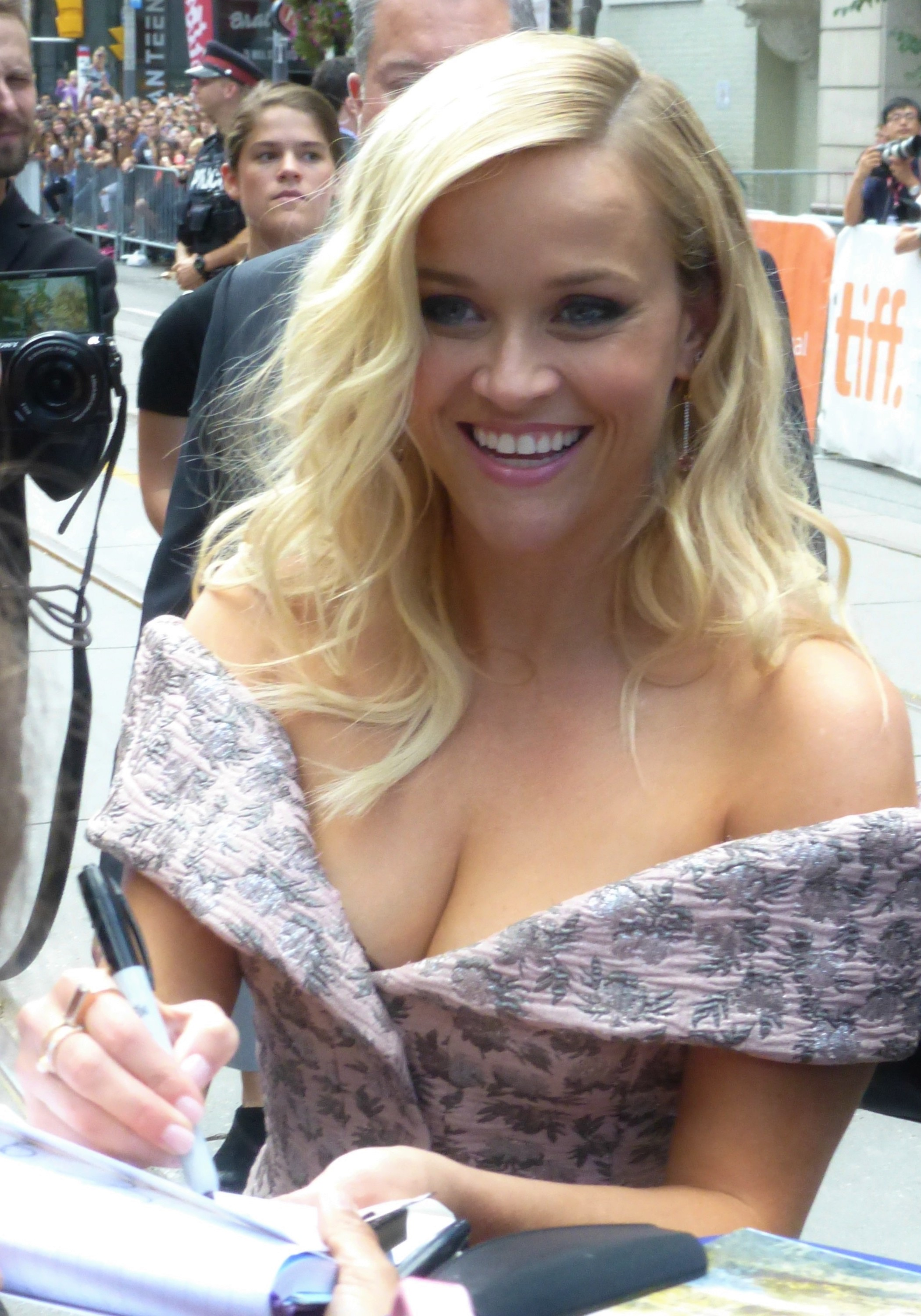 Reese Witherspoon at the premiere of Sing, 2016 Toronto Film Festival